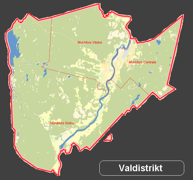 Electional division of Munkfors, Sweden